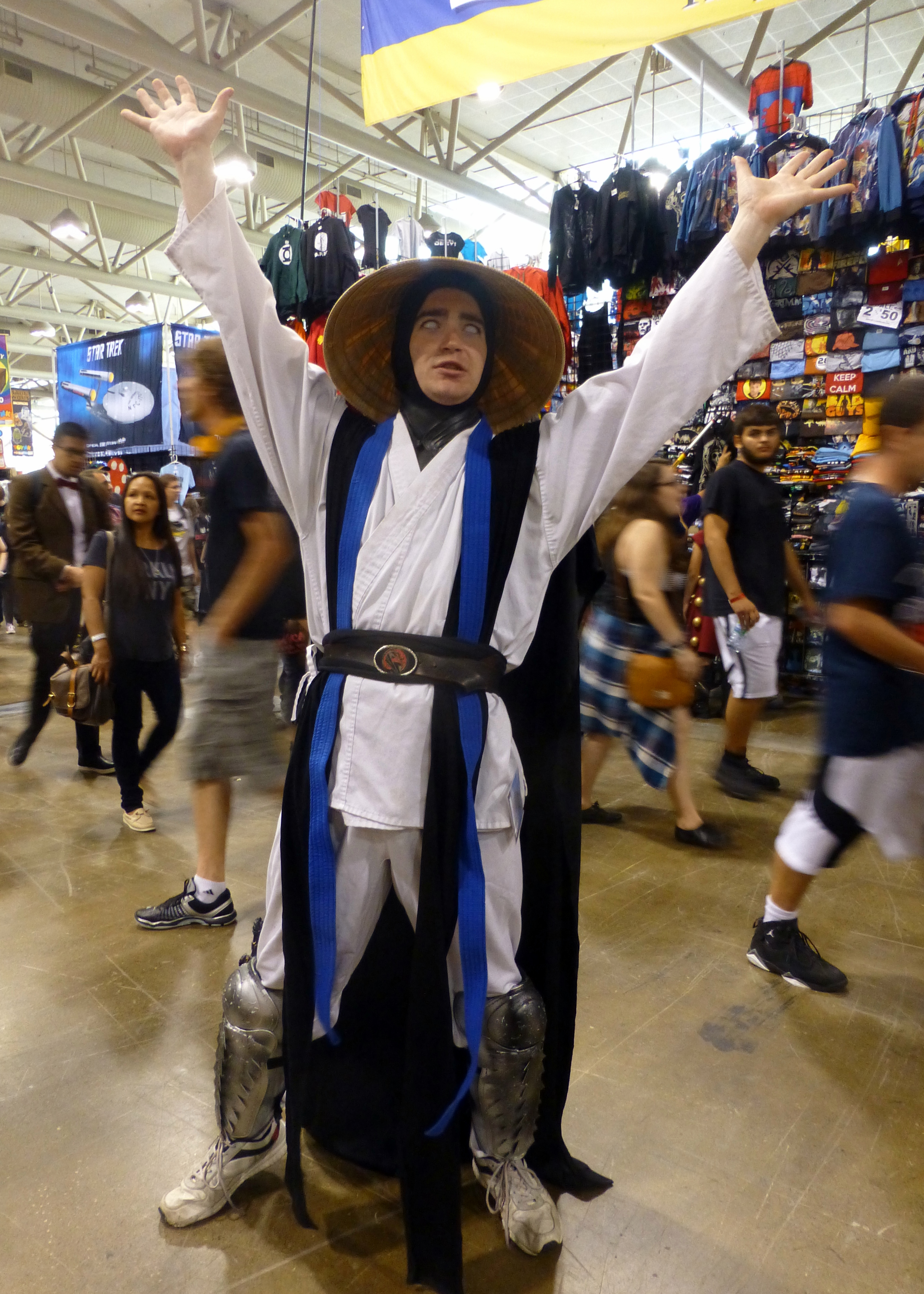 Raiden from Mortal Kombat Cosplay at Fan Expo Canada in 2015.